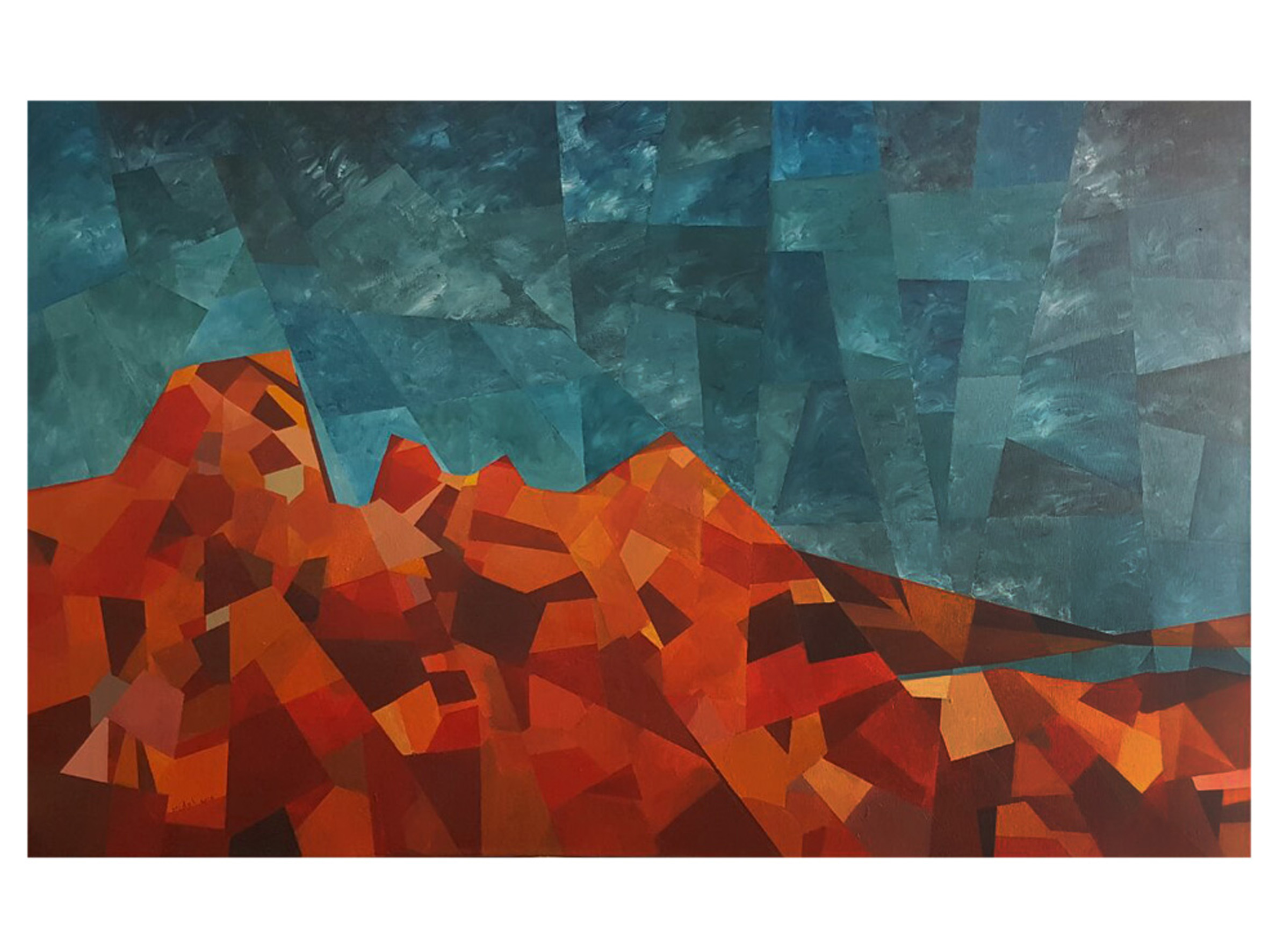 Acrylic on canvas